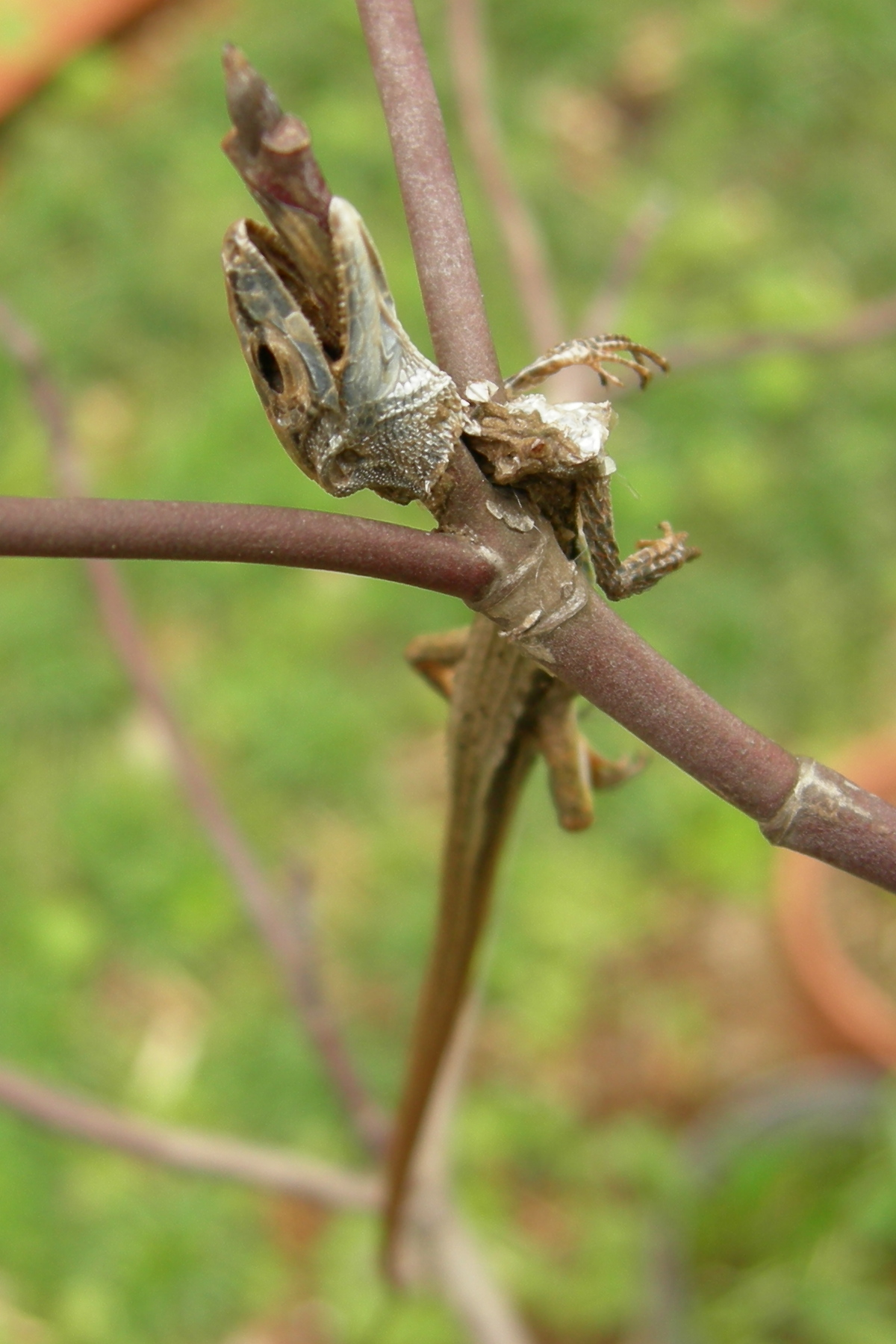 モズの早贄 : Lizard pierced by shrike